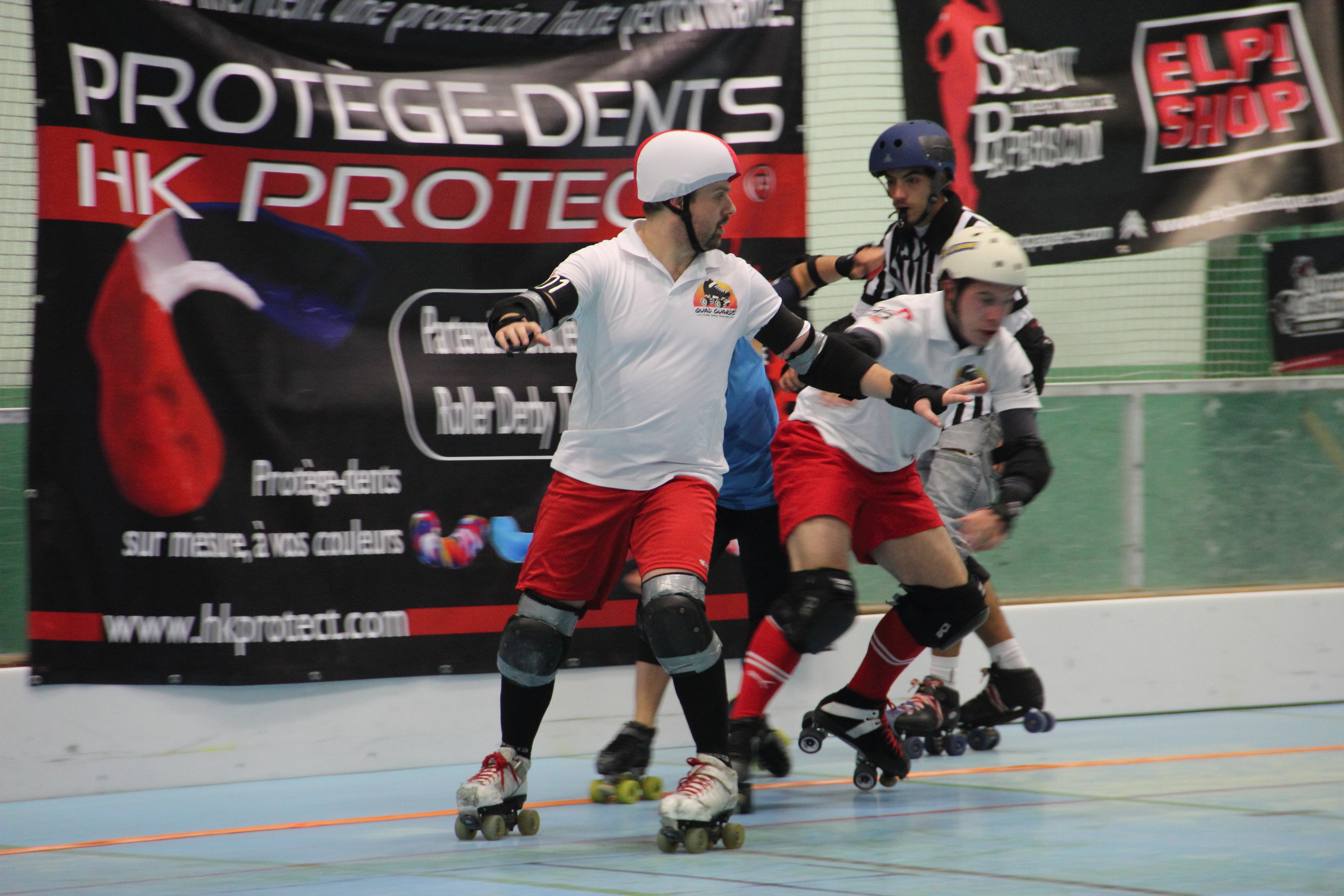 Roller Derby Toulouse — 9 December 2012, La Ramée, Tournefeuille. Match between: Nothing Toulouse — Quad Guards